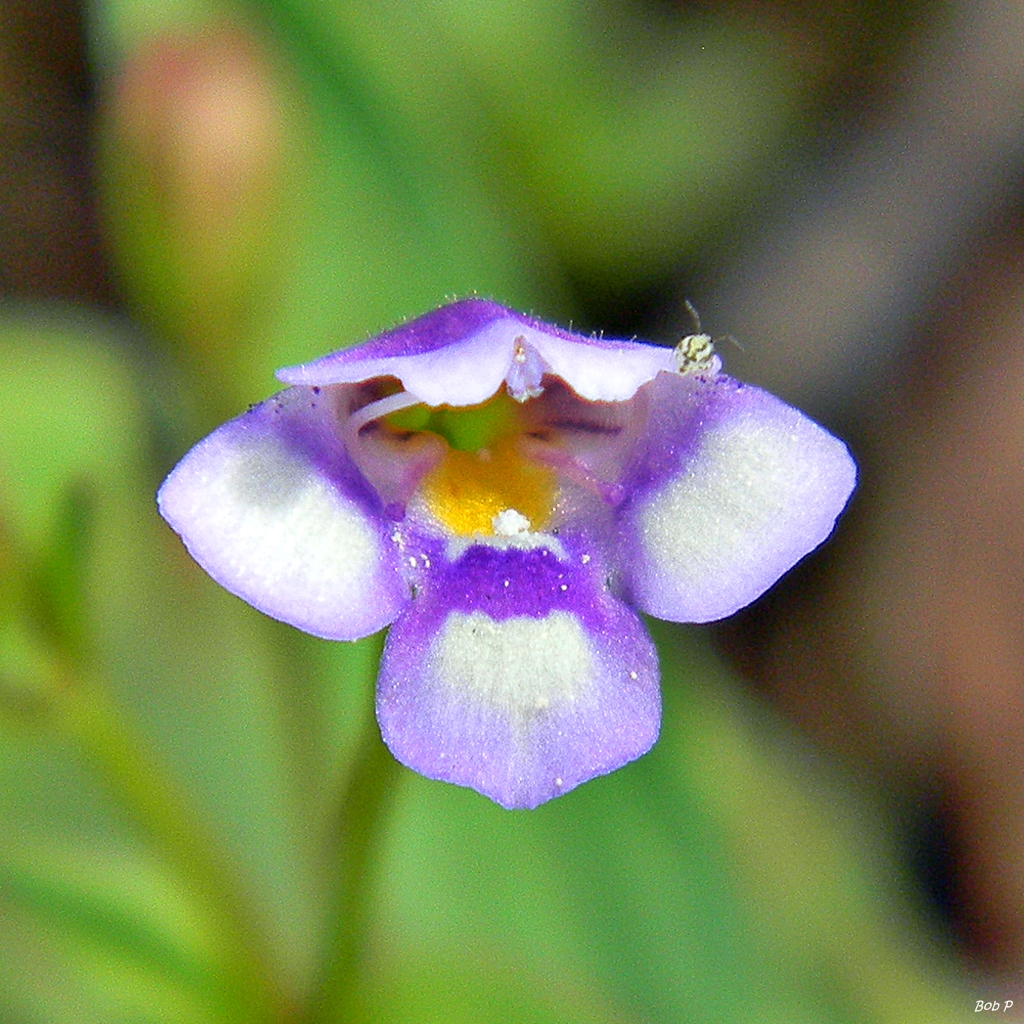 This 5mm blossom is one of those mysterious little "weeds" often found in moist grassy areas. It is a pantropical species that was introduced into North America. This species has changed families a few times so you may find it listed as a member of the Plantaginaceae, the Scrophulariaceae or more recently, the Linderniaceae. It is common on grassy trails used by vehicles so it's seeds may hitch rides in the tire treads. In Asia, there are several medicinal uses including poultices for boils, sores, ringworm and general itches.